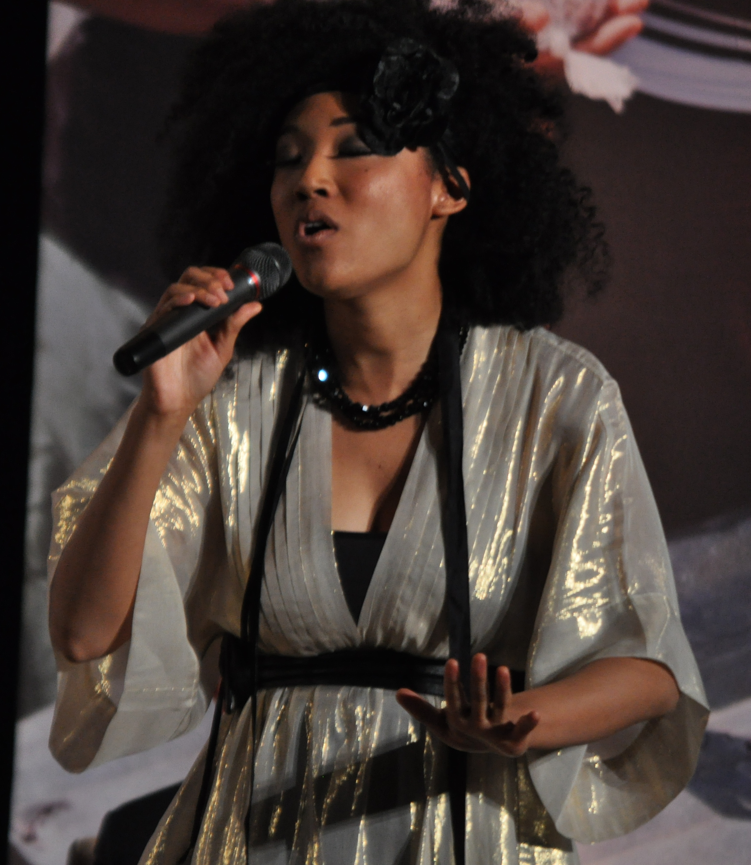 Judith Hill performs a song at the end of the 2011 International Women of Courage Ceremony. (Photo by Roshan Nebhrajani Medill News Service)